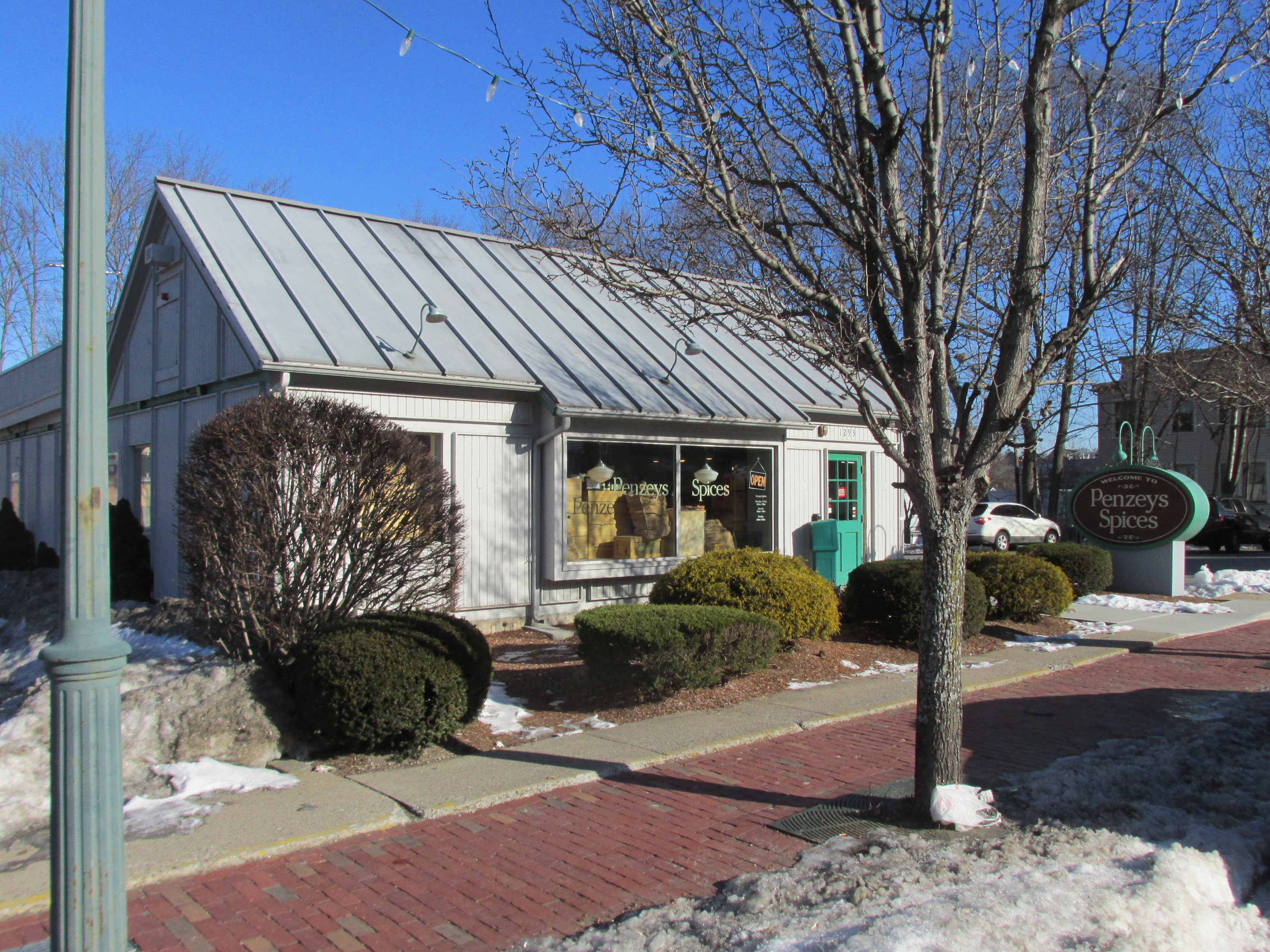 Penzeys Spices, Arlington Heights Massachusetts - 2014